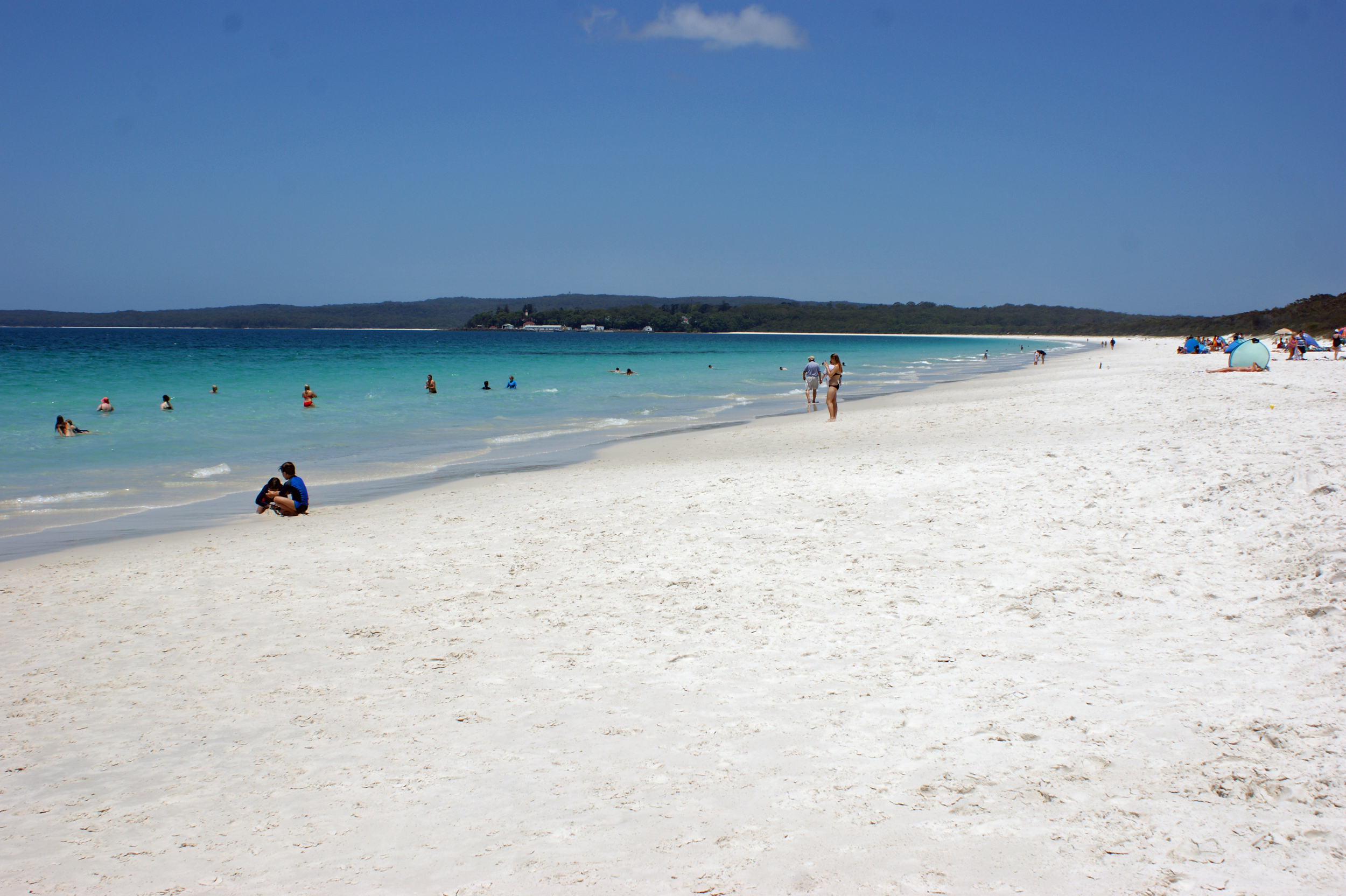 Hyams Beach, Jervis Bay, NSW, Australia – looking South